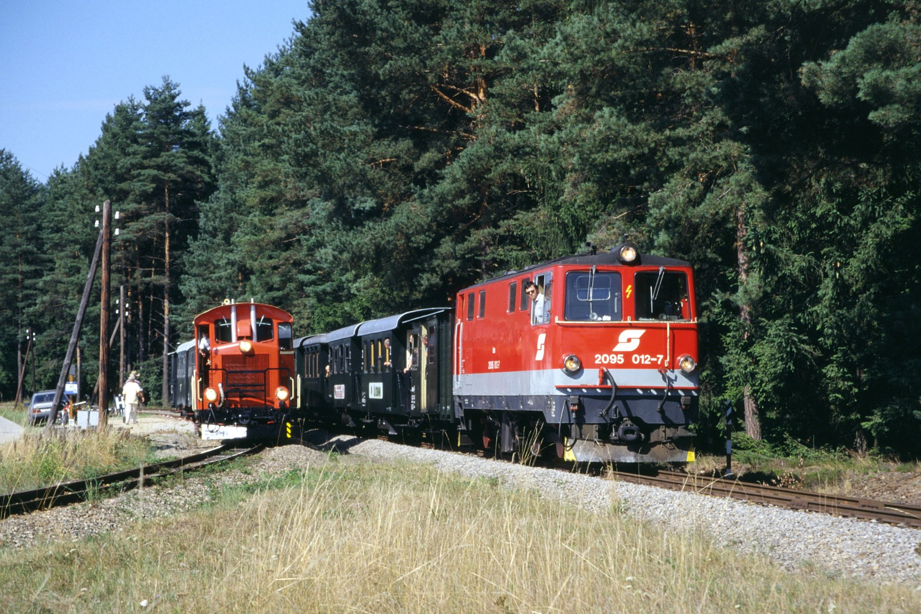 Diesel engines 2091.07 and 2095 012-7 near Alt Nagelberg on the northern branch of the Waldviertel Narrow Gauge Railways in Lower Austria